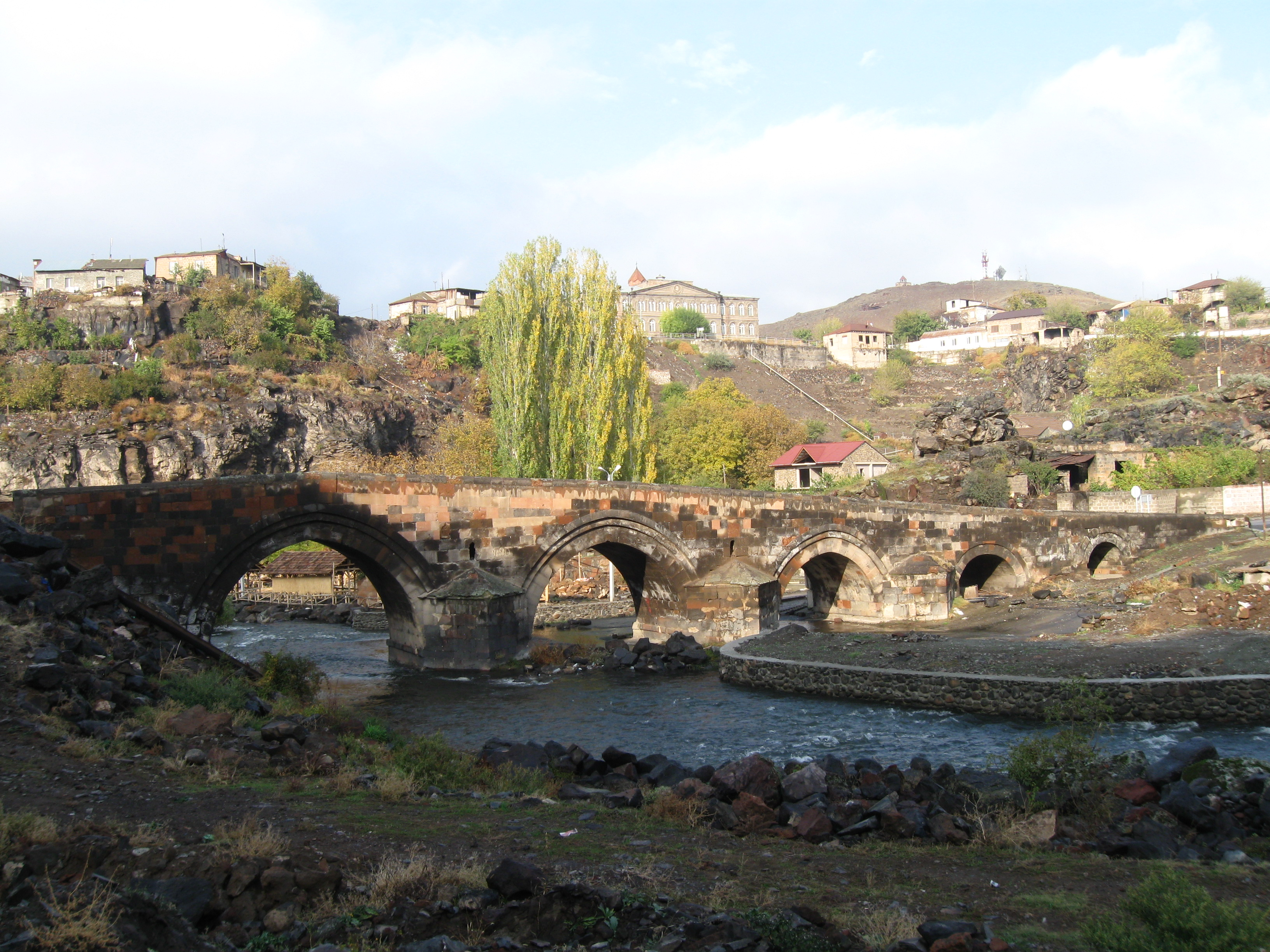 Oshakan medieval bridge